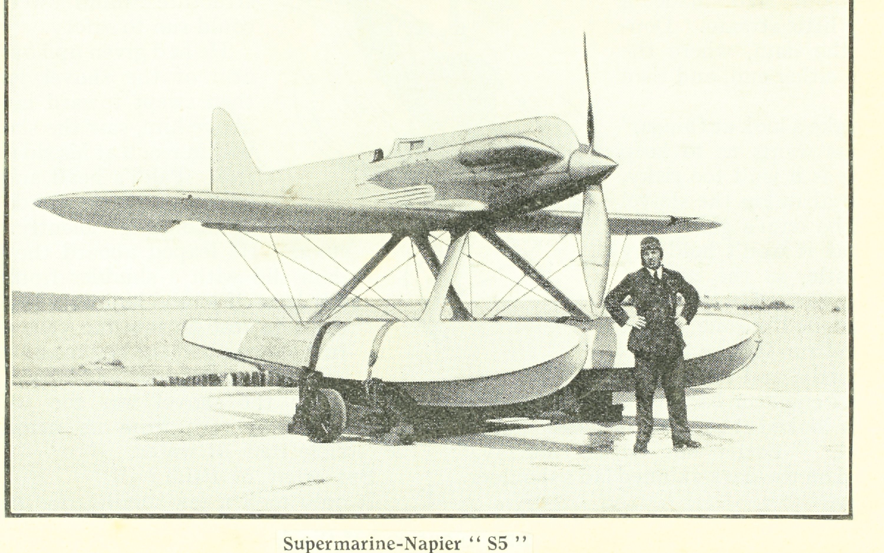 Catalog #: 01_00088589 Manufacturer: Supermarine Designation: S.5 Repository: San Diego Air and Space Museum Archive